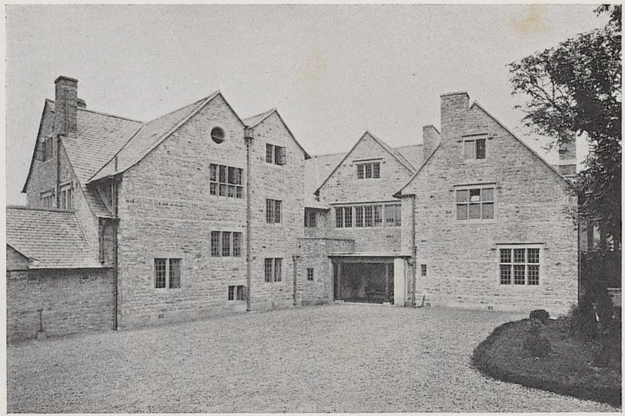 Barrows Green, near Kendal, by Percy Scott Worthington, Architect. From The Studio Yearbook, 1908